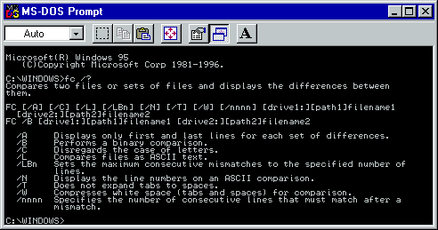 Microsoft Windows 95 Version 4.00.1111 fc command